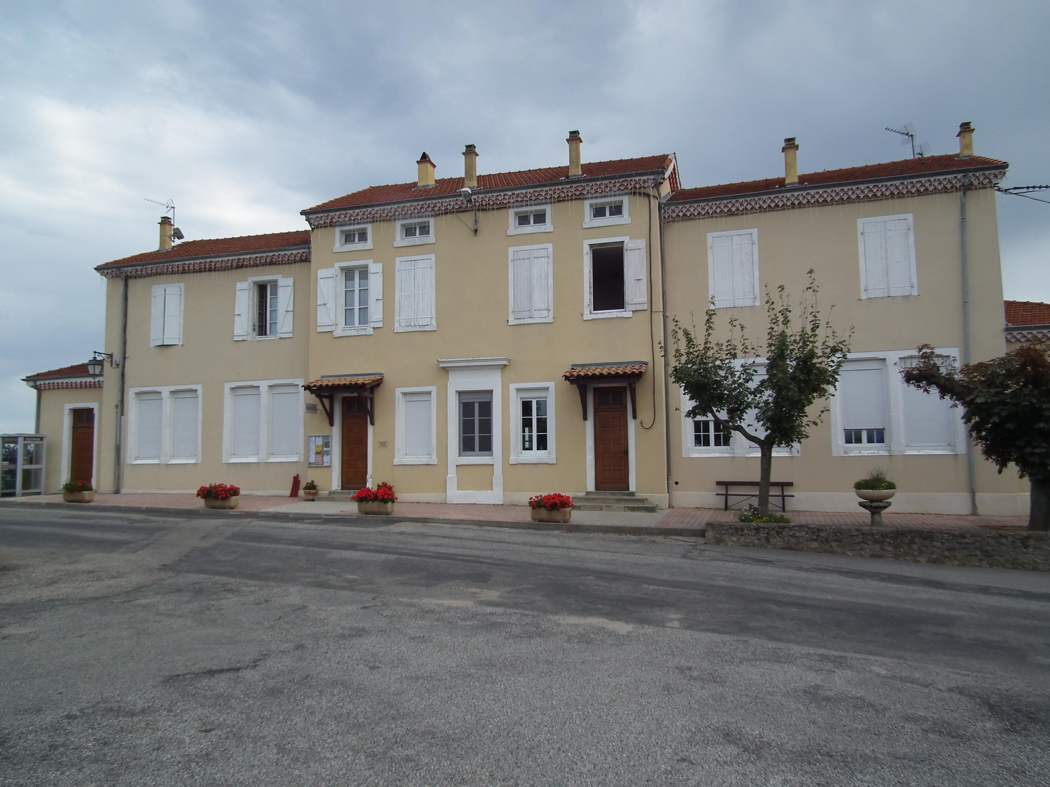 Town hall of Champis - Ardèche - France